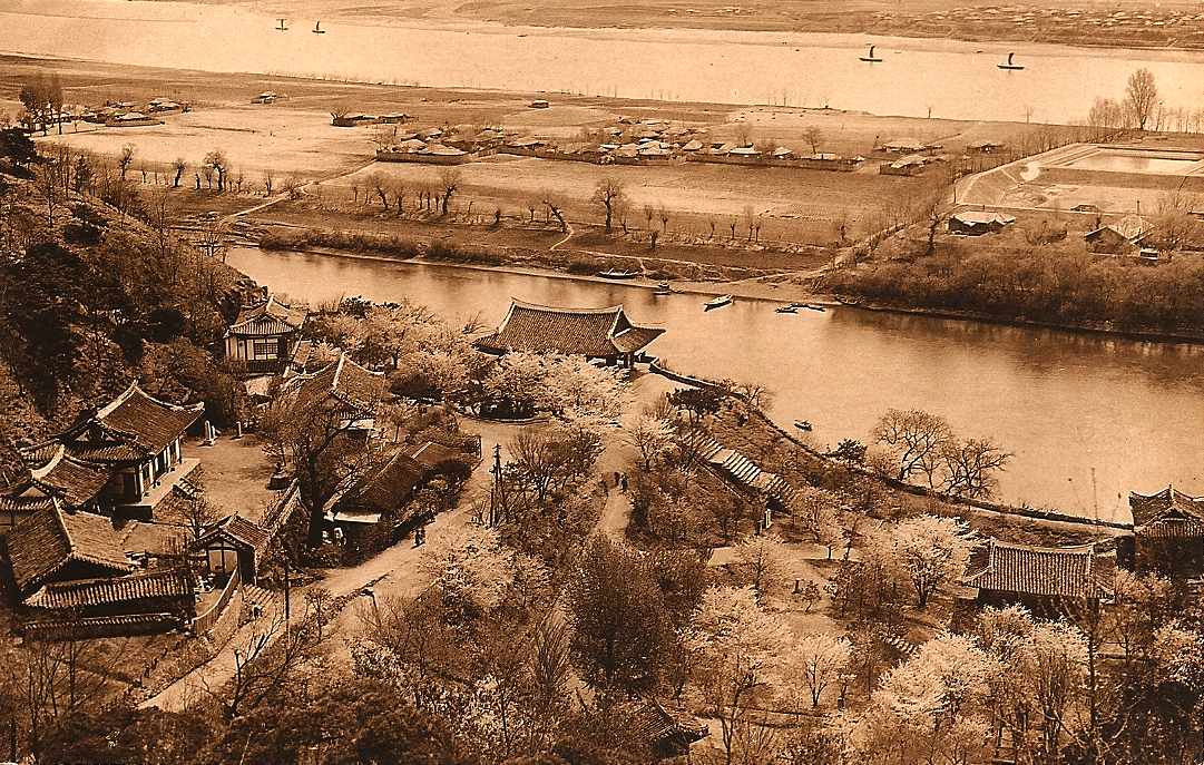 "Botandai, a historic place in Heijo" - Moran Hill, Pyongyang, with Yŏngmyŏng temple in foreground.